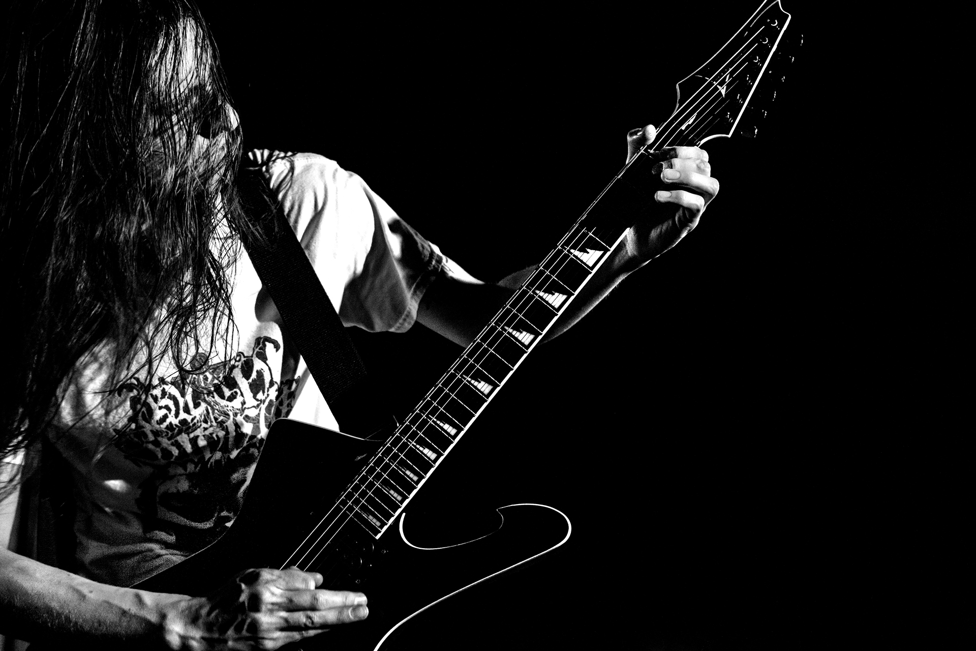 Colin Marston performing with Krallice at Migration Fest in Olympia, WA. August 12th, 2016.